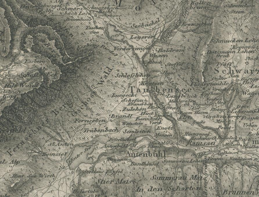 Topographischer Atlas vom Königreiche Baiern, Blatt: 93. Reichenhall